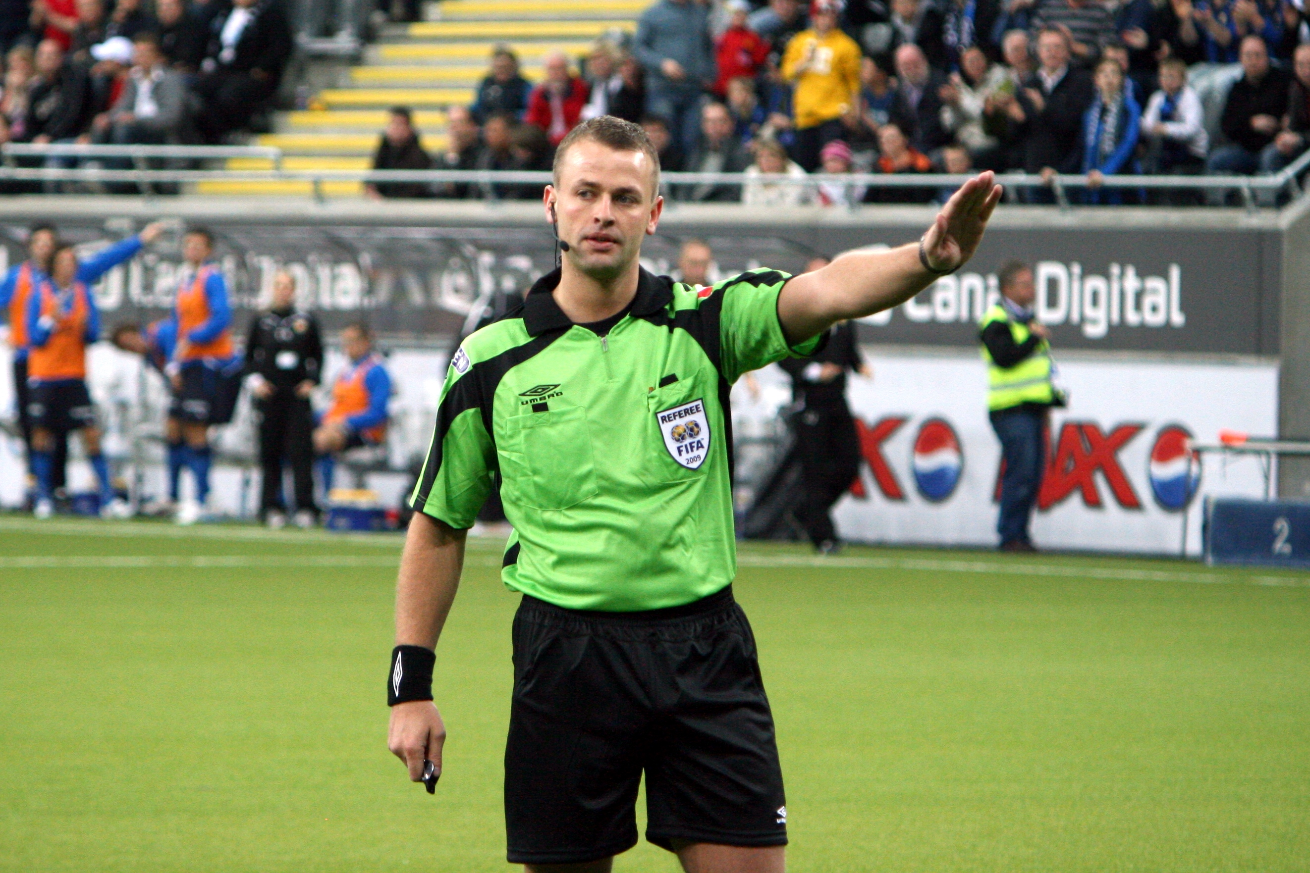 Norwegian football referee Svein Oddvar Moen.